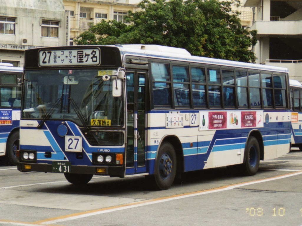 Okinawa Bus